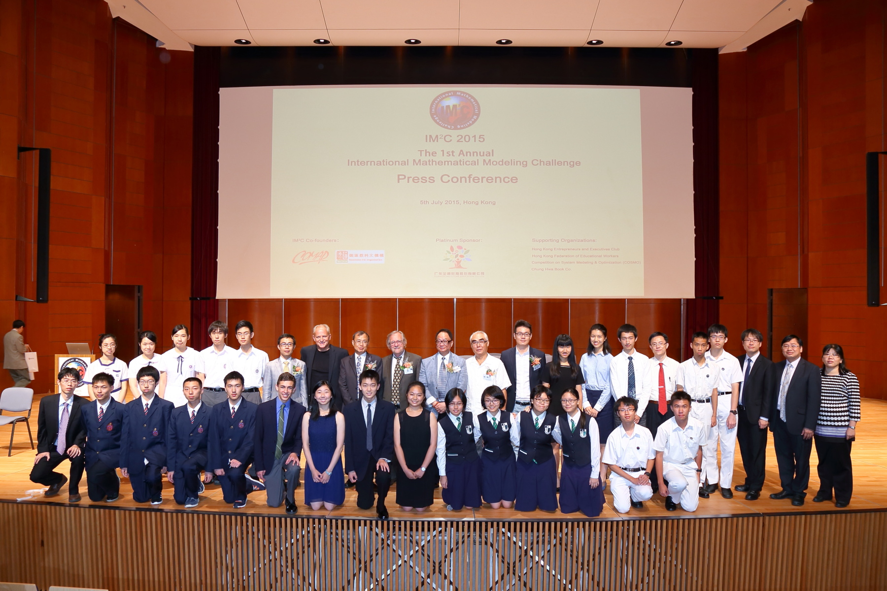 IMMC Press Conference 2015 at Hong Kong University, Hong Kong SAR